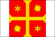 Municipal flag of Dražovice village, Vyškov District, Czech Republic.